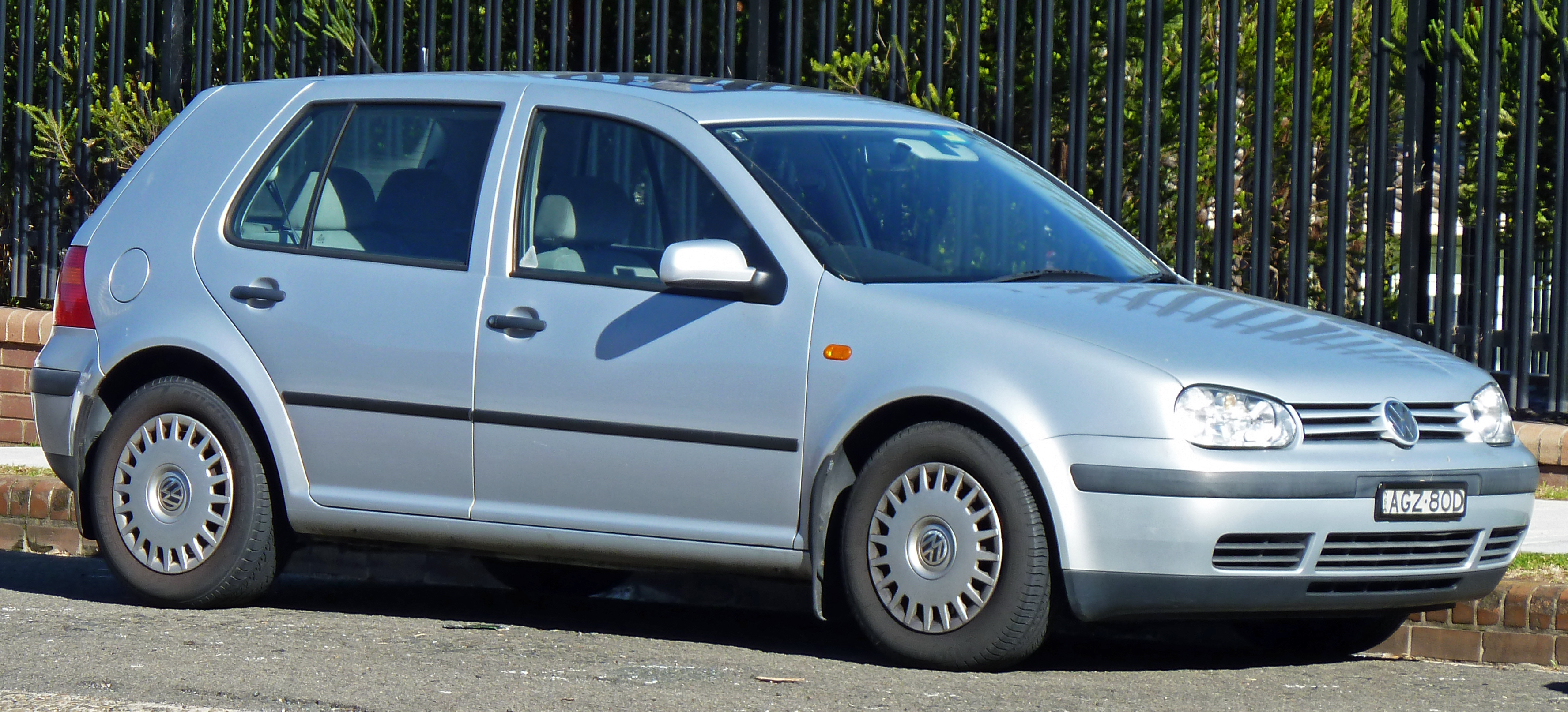 1999 Volkswagen Golf (1J) GLE 5-door hatchback. Photographed in Cronulla, New South Wales, Australia.